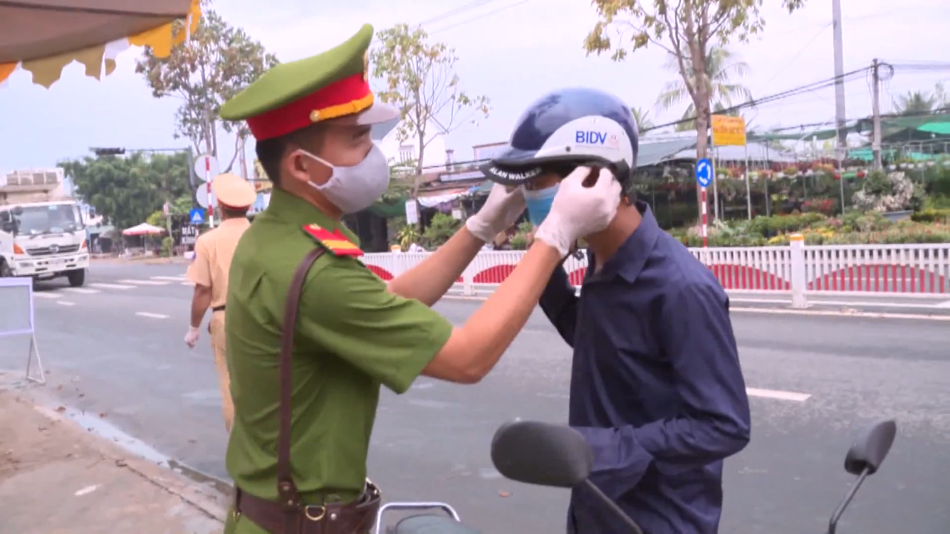 Vietnam policeman wearing mask for people, Soc Trang City